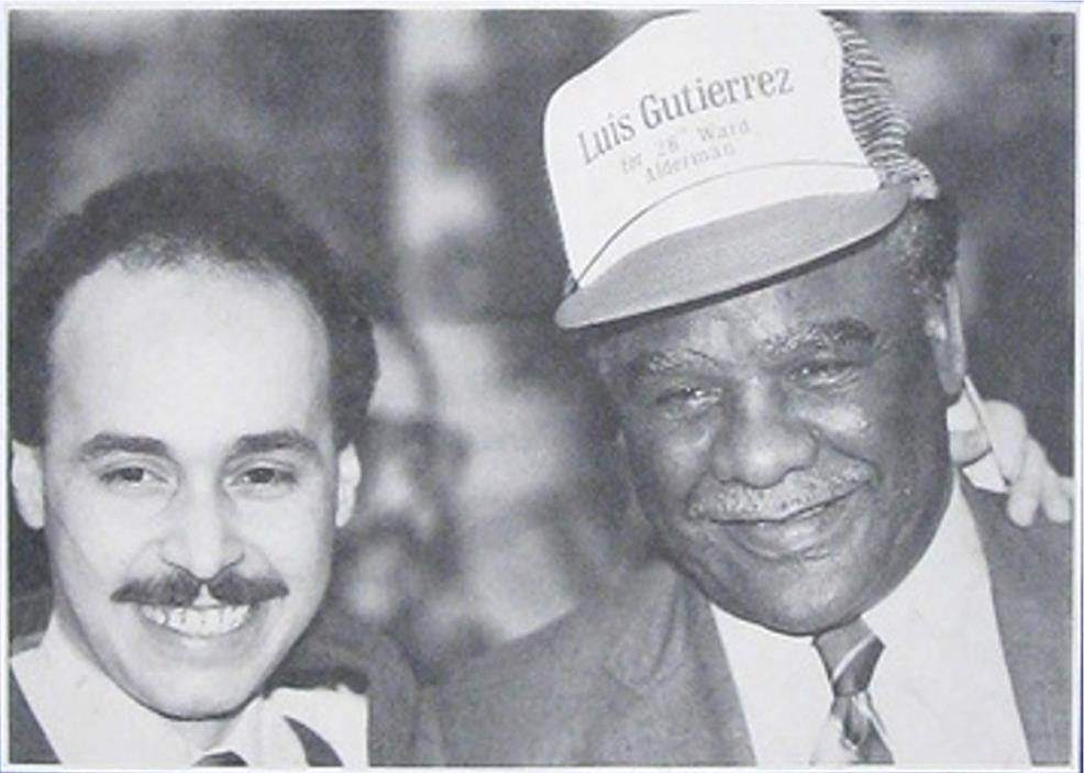 Mayor Harold Washington with then-Alderman Luis V. Gutierrez.